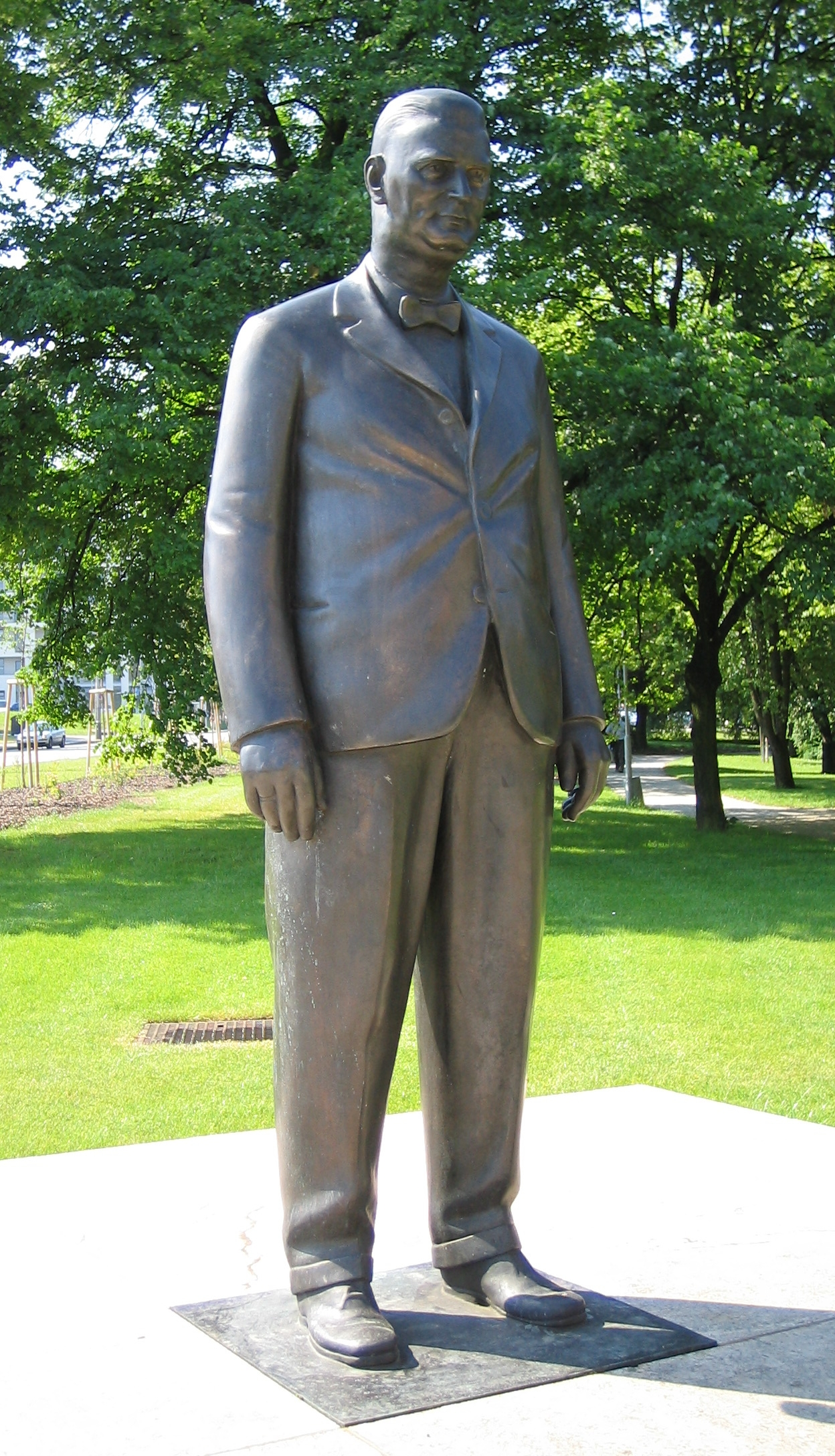 Statue of Jan Antonín Baťa across the street from the Baťa Skyscraper in Zlín